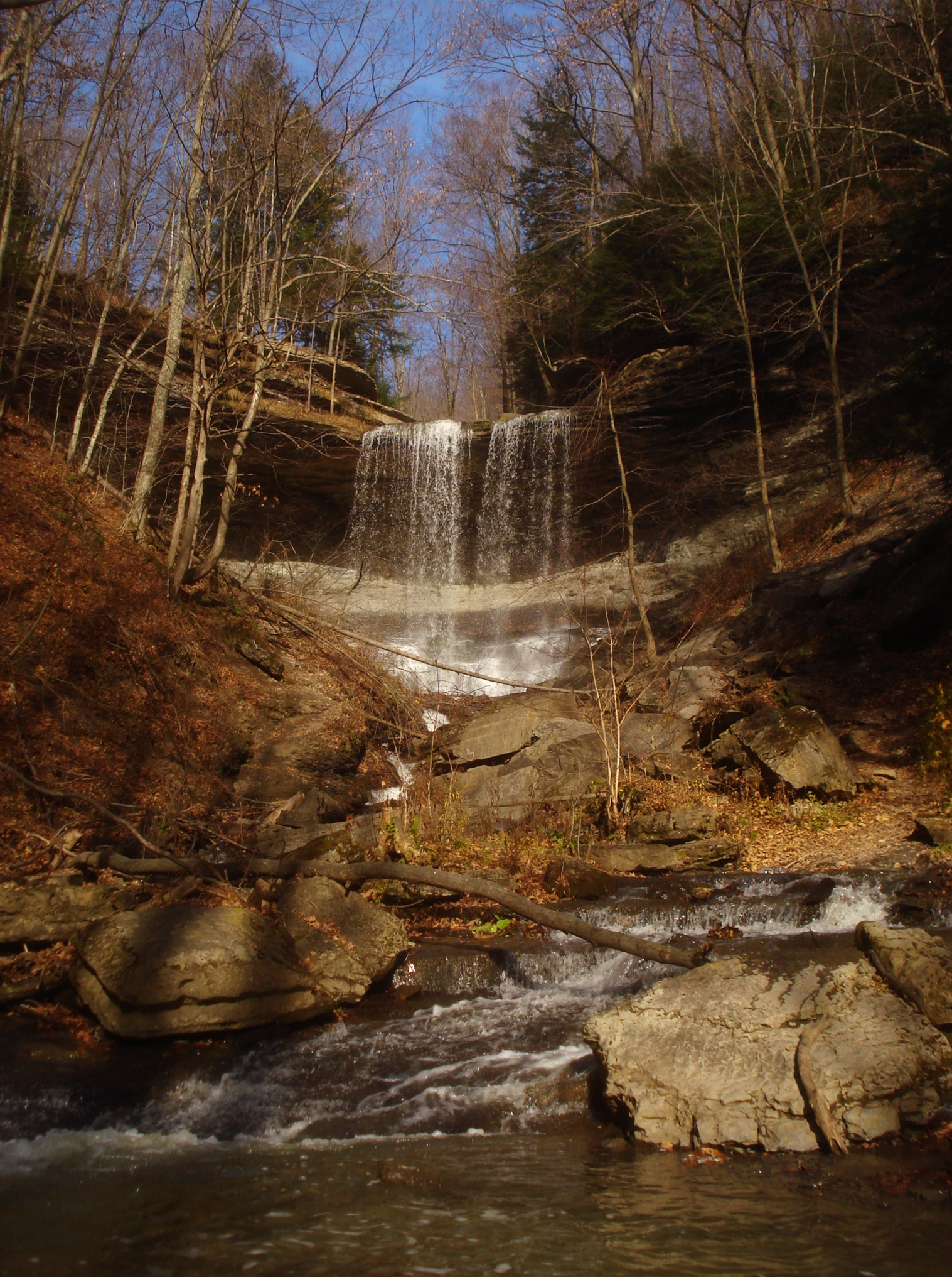 View of Tinkers Falls within the Labrador Hollow Unique Area in New York.